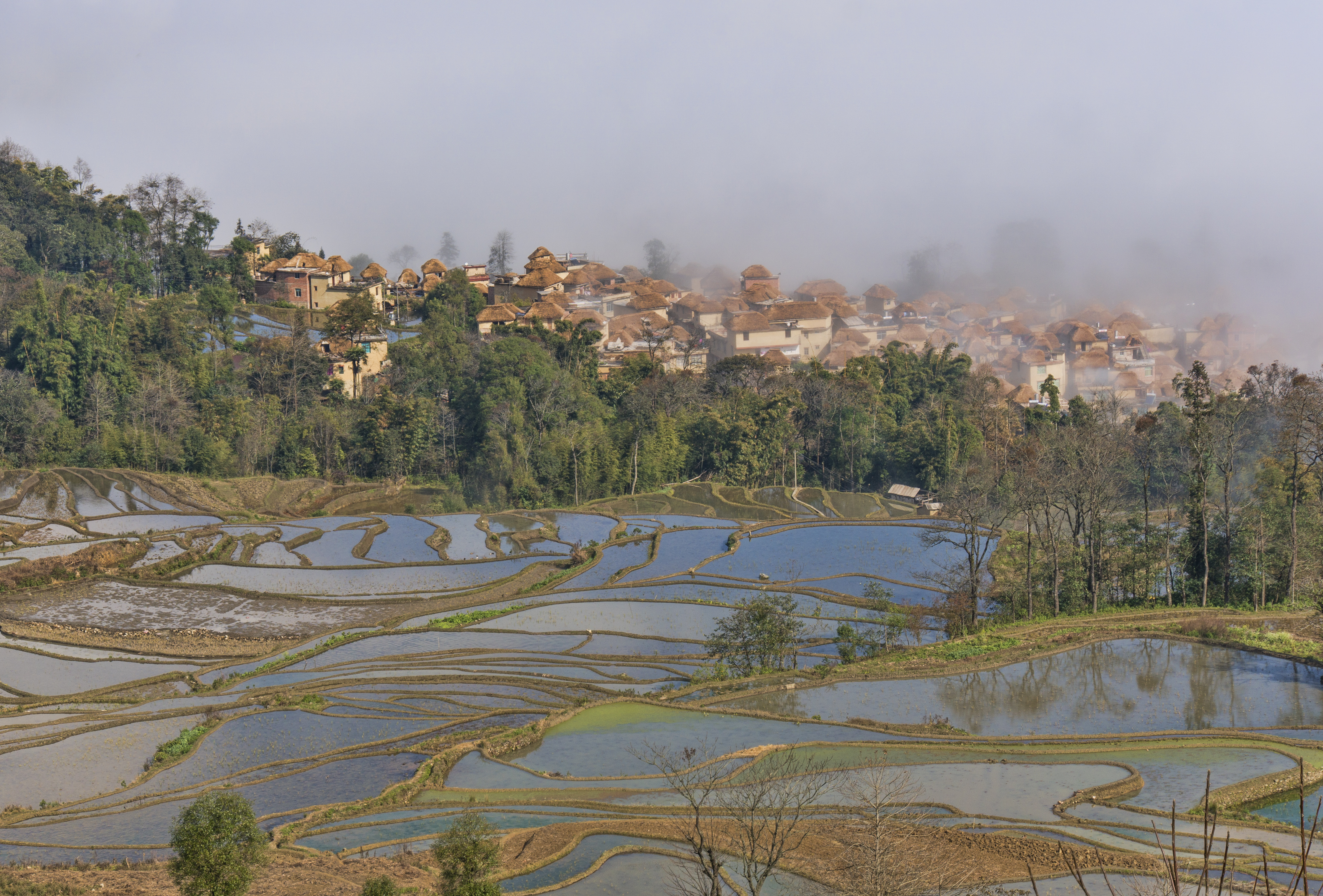 yuanyang county yunnan china rice terrace mist qingkou 2012